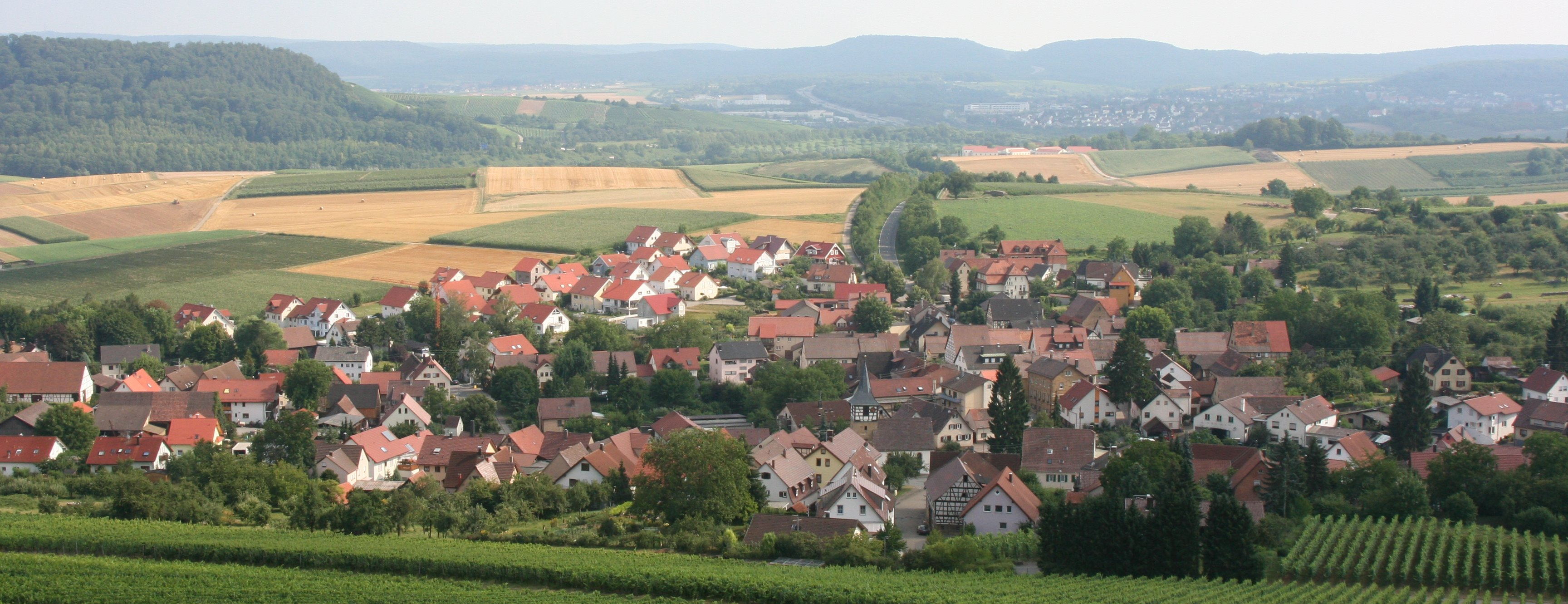 Weinsberg-Gellmersbach photographed from the North